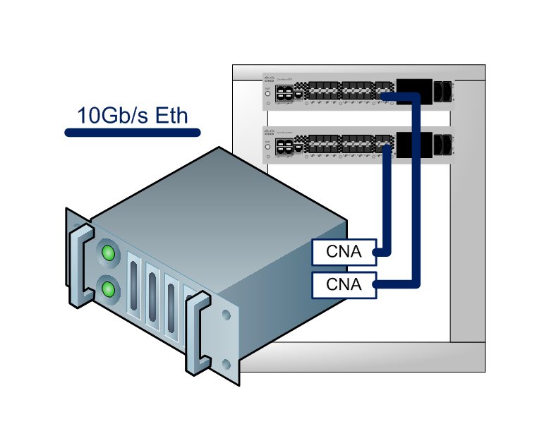 Fibre Channel over Ethernet I/O consolidation